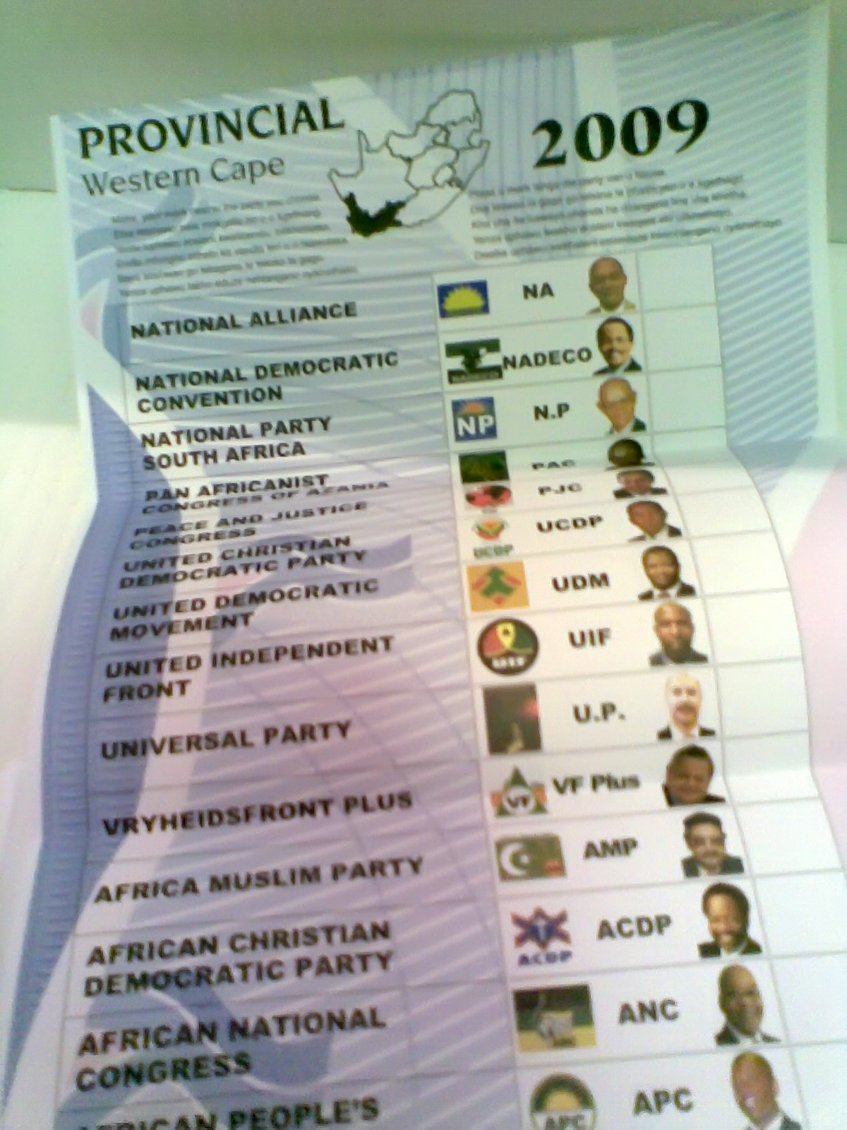 The provincial ballot paper, showing some of the 22 parties hoping to govern the highly contested Western Cape province.